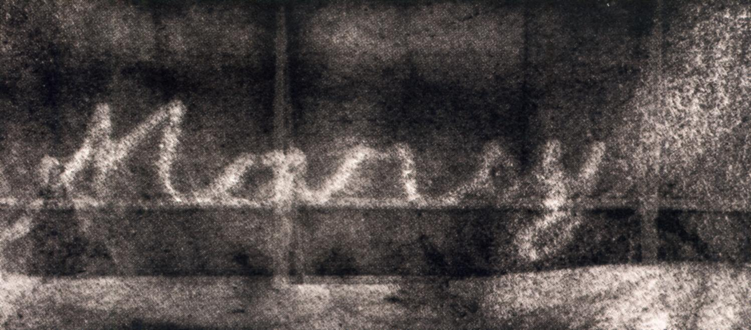 Signature of Etienne-Jules Marey in lightpainting in 1882